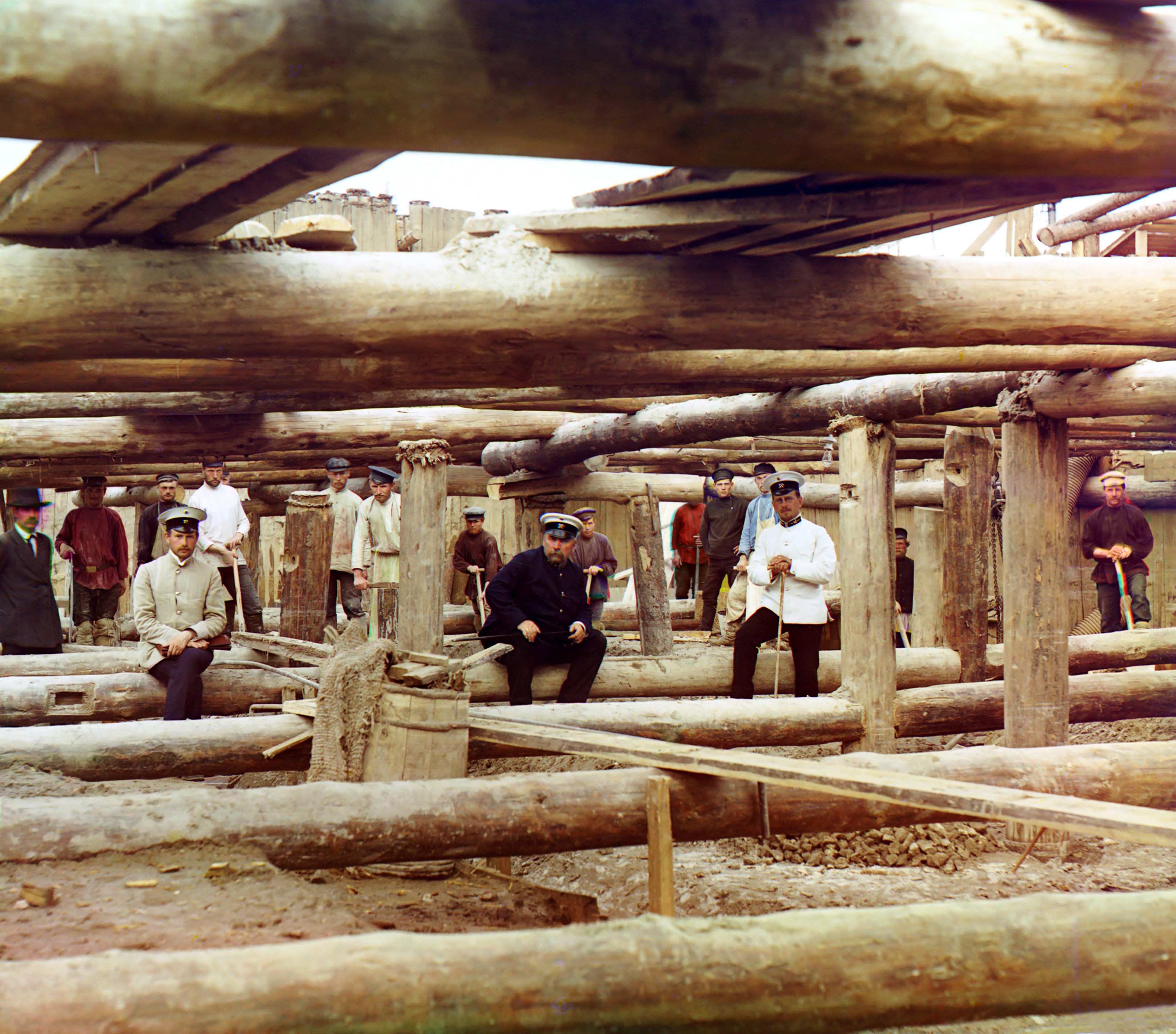 Laying concrete for the dam's sluice. [Beloomut]. Workers and supervisors posing for photograph amid preparations for pouring cement for sluice dam foundation across the Oka River near Beloomut.